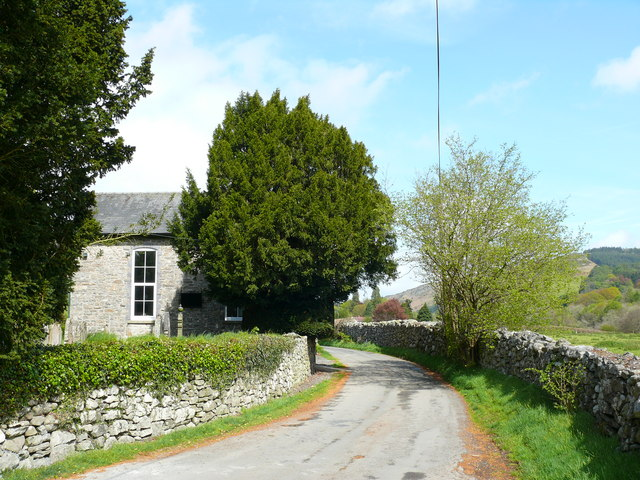 Capel ger Llanwrthwl / Chapel near Llanwrthwl Lon wledig ger y capel, Llanwrthwl / Country lane near the chapel, Llanwrthwl.